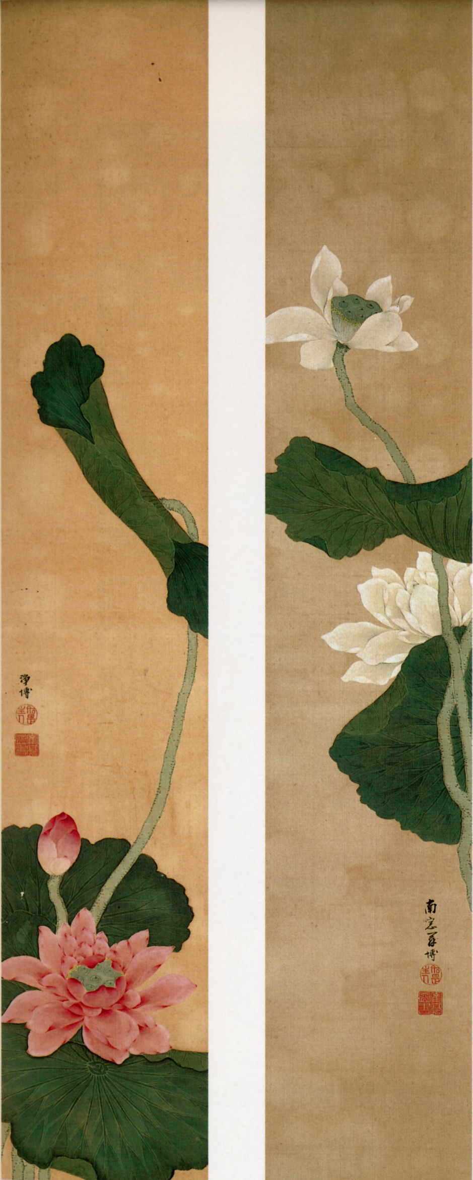 Red and white Lotus ,Kakutei Paired,hanging scrolls,color on silk